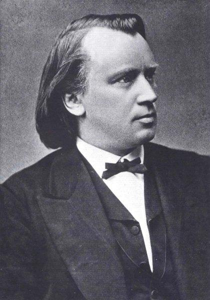 The composer Johannes Brahms.